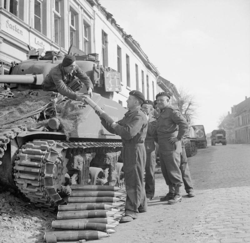 The crew of a Sherman tank of the British 8th Armoured Brigade loading ammunition for the 75-mm gun near Xanten, Germany.